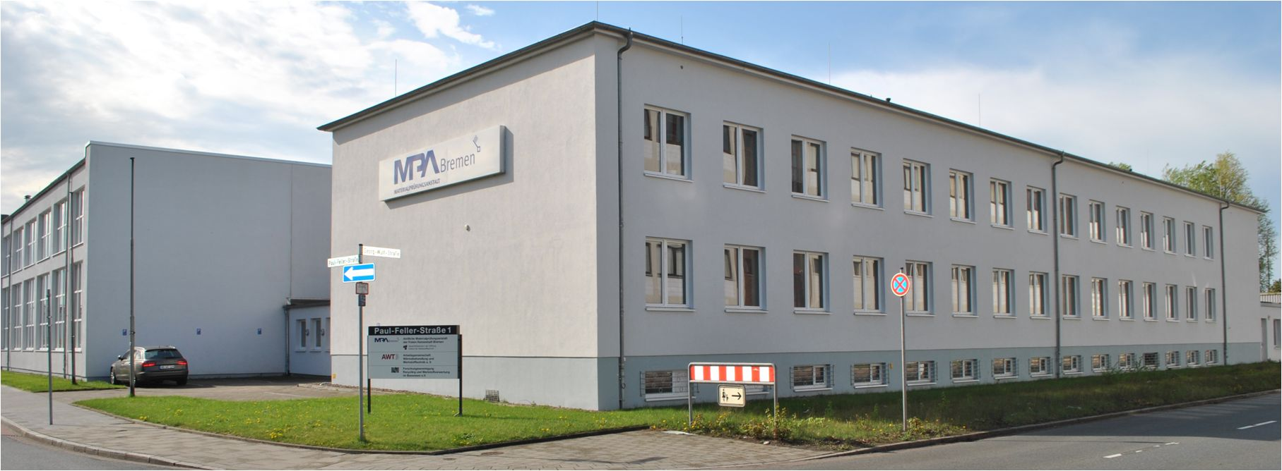 outer view of the MPA Bremen